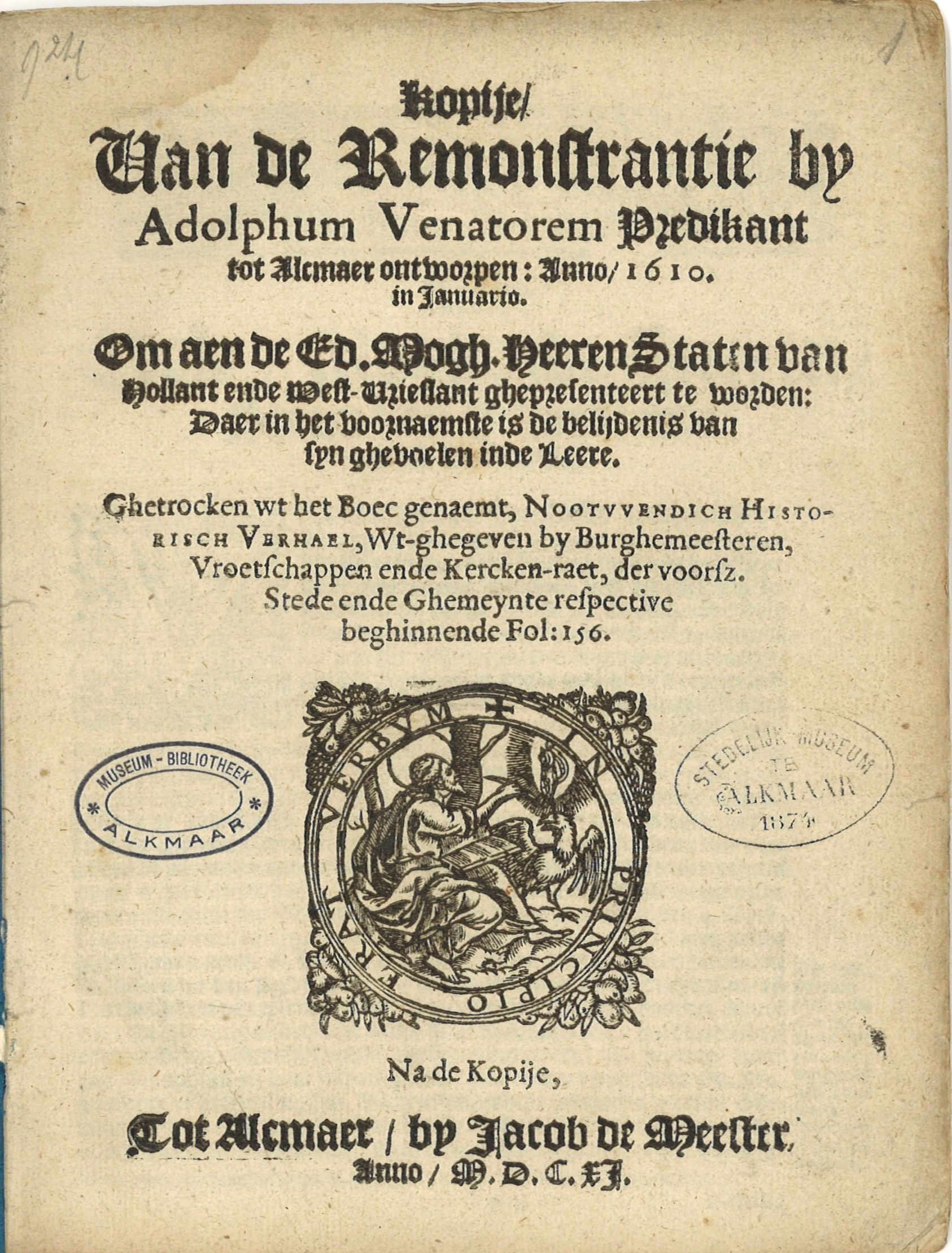 Title page